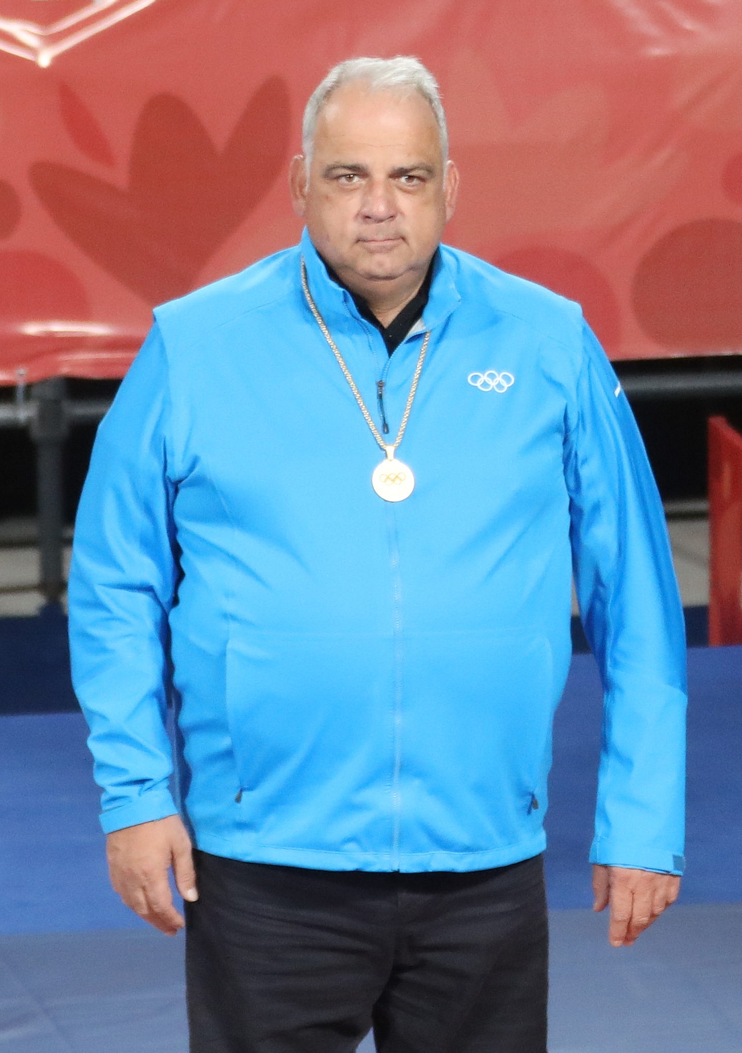 Wrestling victory ceremony of the boys 51 kg at the 2018 Summer Youth Olympics in Buenos Aires on 12 October 2018.